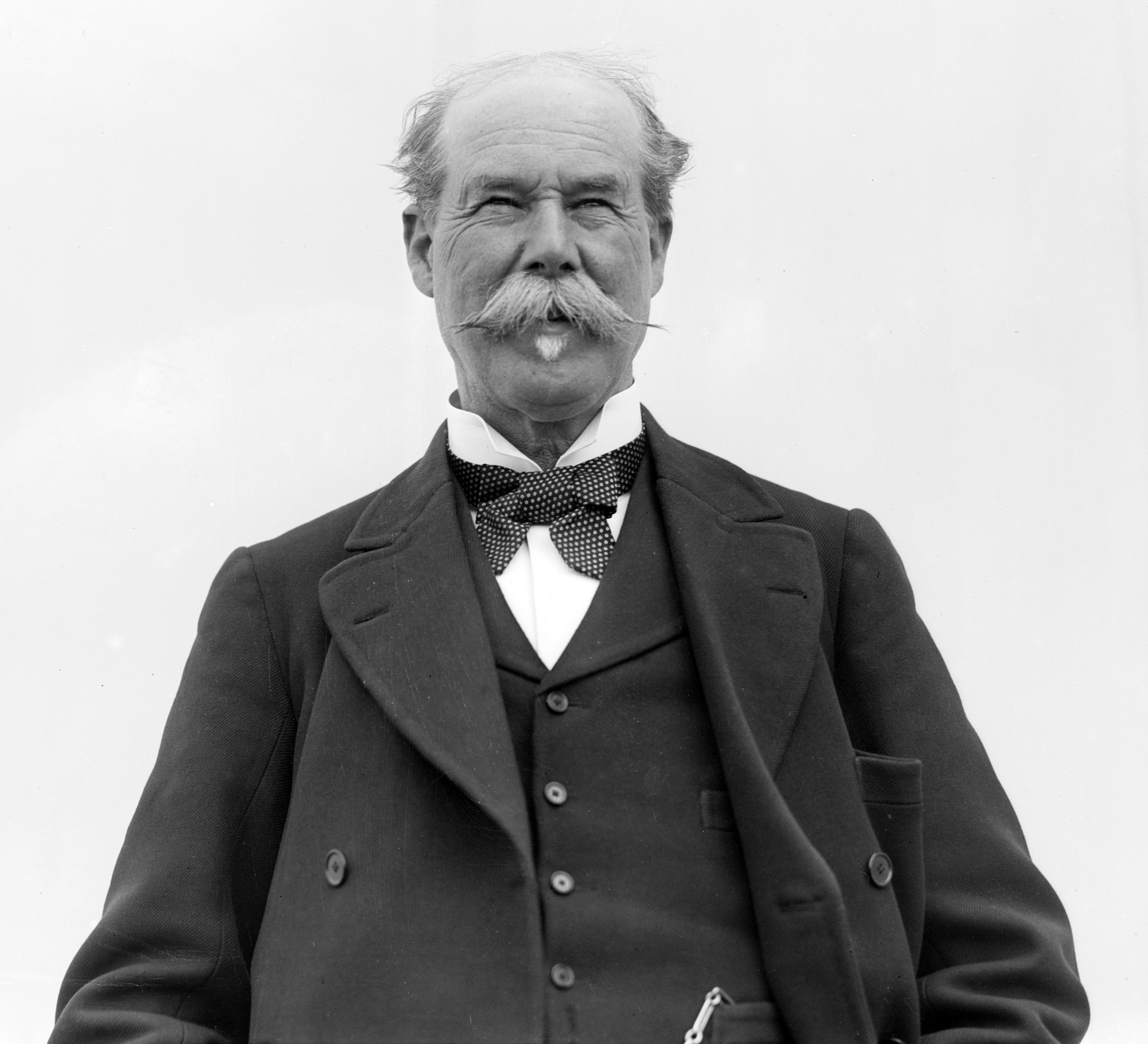 TITLE: Sir Thomas Lipton MEDIUM: 1 negative : glass ; 5 x 7 in. or smaller. CREATED/PUBLISHED: 1909. NOTES: Forms part of: George Grantham Bain Collection (Library of Congress). Title from unverified data on caption card or negative sleeve. 0 FORMAT: Glass negatives. REPOSITORY: Library of Congress Prints and Photographs Division Washington, D.C. 20540 USA